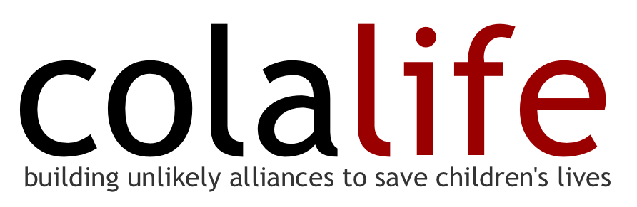 The ColaLife life logo (medium size) with the strapline 'Building unlikely alliances to save children's lives'.